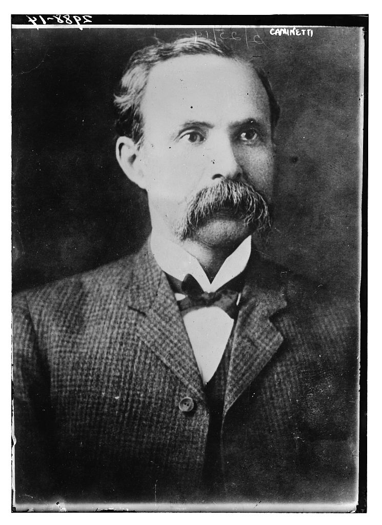 Bain News Service, publisher. Anthony Caminetti circa 1915 [between ca. 1910 and ca. 1915] 1 negative : glass ; 5 x 7 in. or smaller. Notes: Title from unverified data provided by the Bain News Service on the negatives or caption cards. Forms part of: George Grantham Bain Collection (Library of Congress). Format: Glass negatives. Repository: Library of Congress, Prints and Photographs Division, Washington, D.C. 20540 USA, General information about the Bain Collection is available at Persistent URL: Call Number: LC-B2- 2988-14